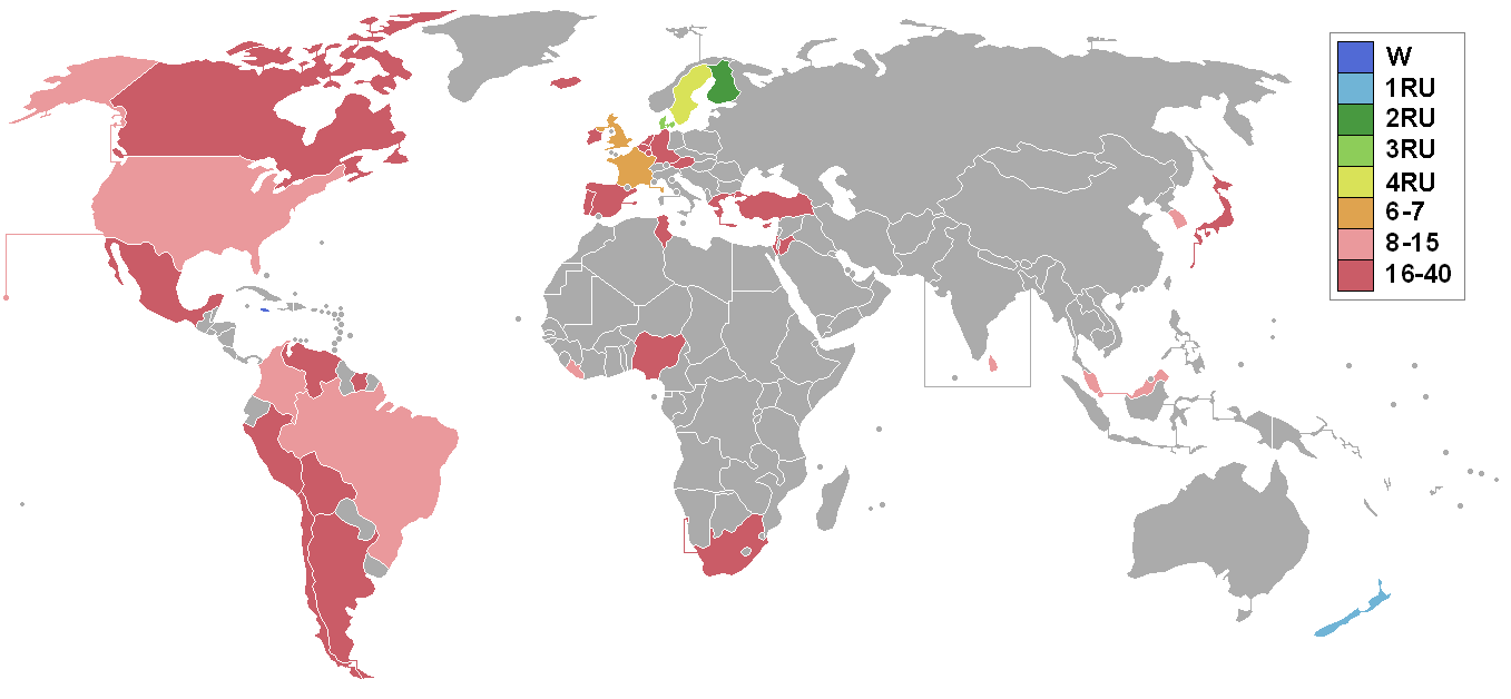 results map